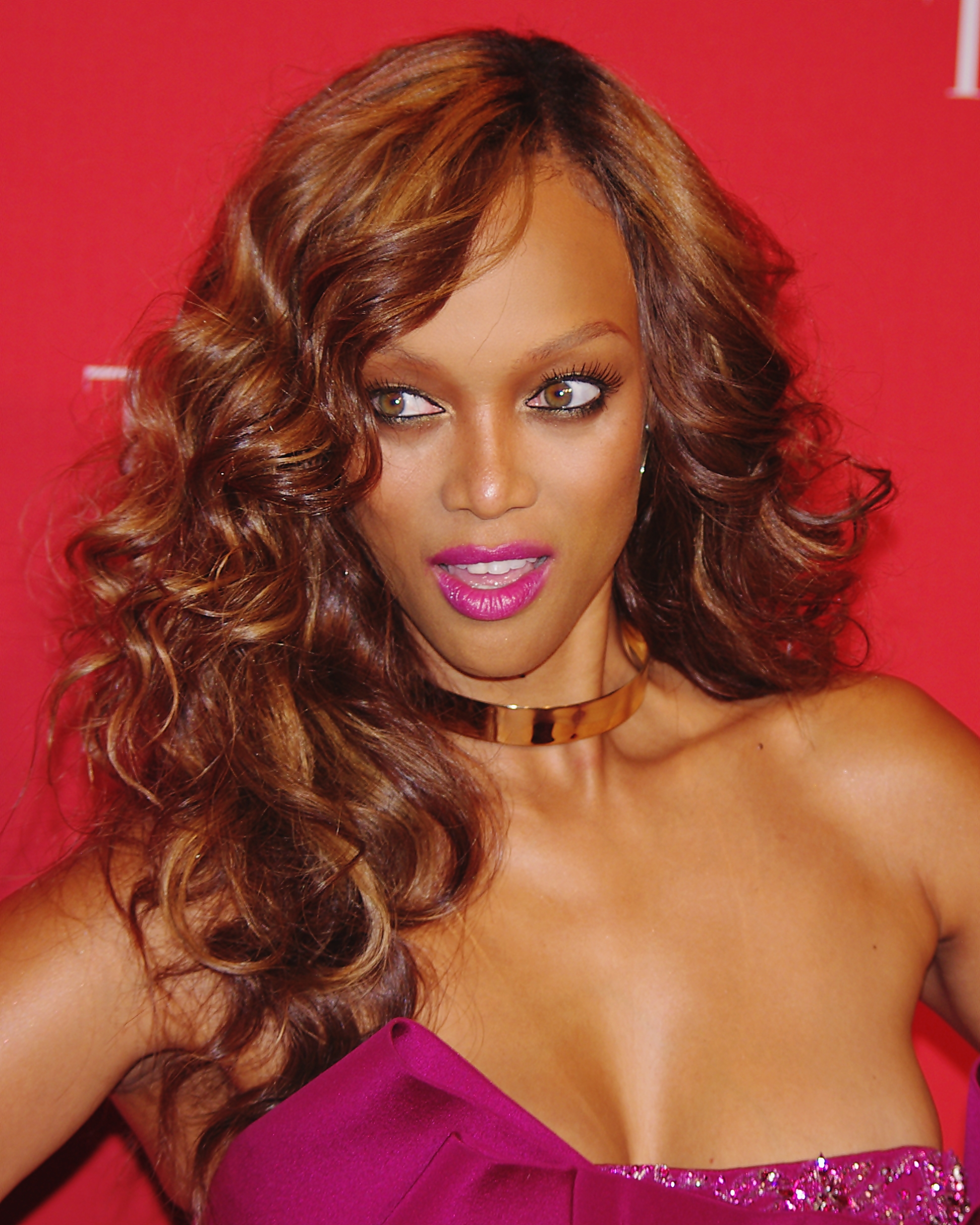 Tyra Banks at the 2012 Time 100 gala.